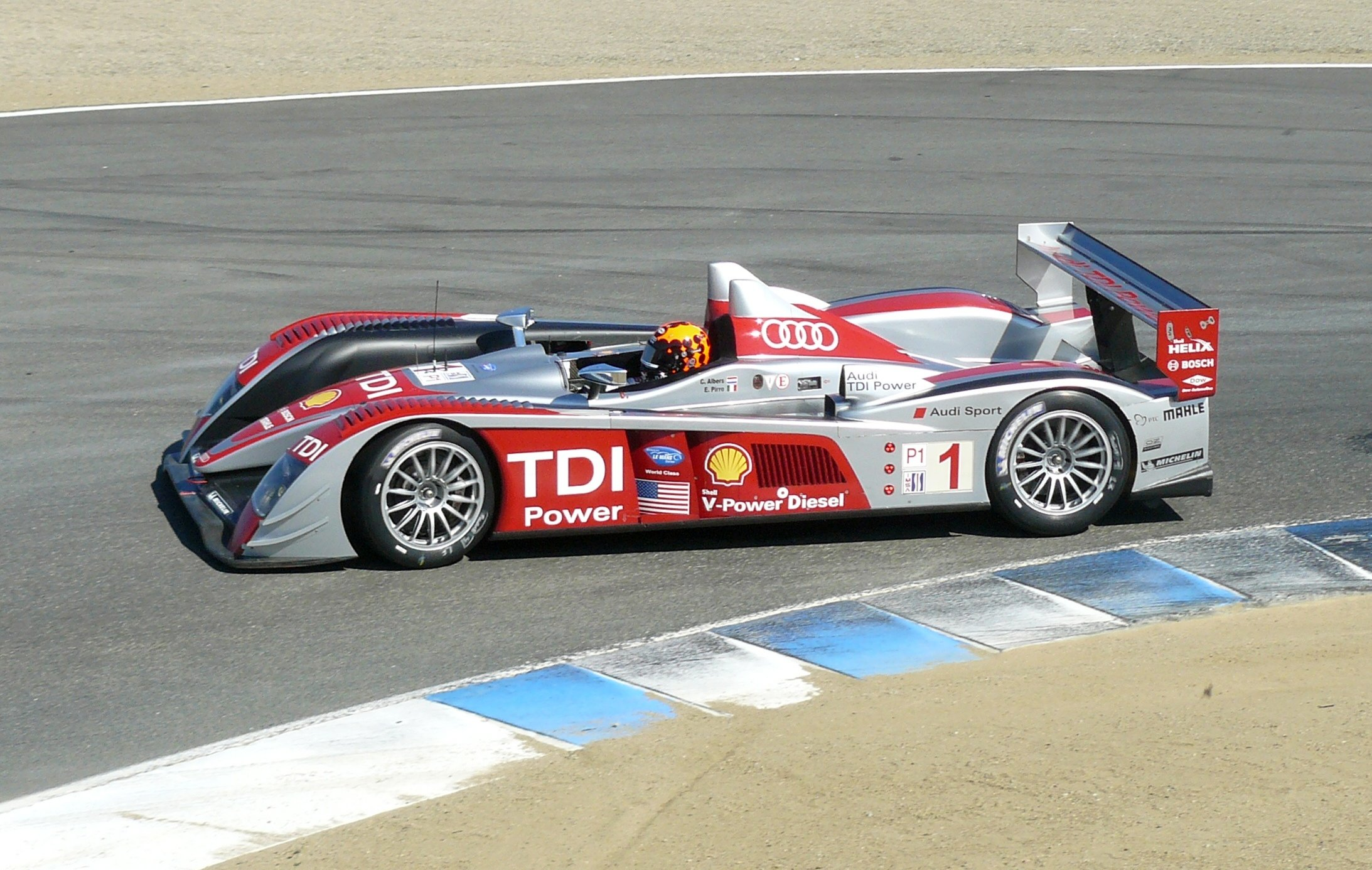 Audi R10 TDI, ALMS at Laguna Seca, October 2008